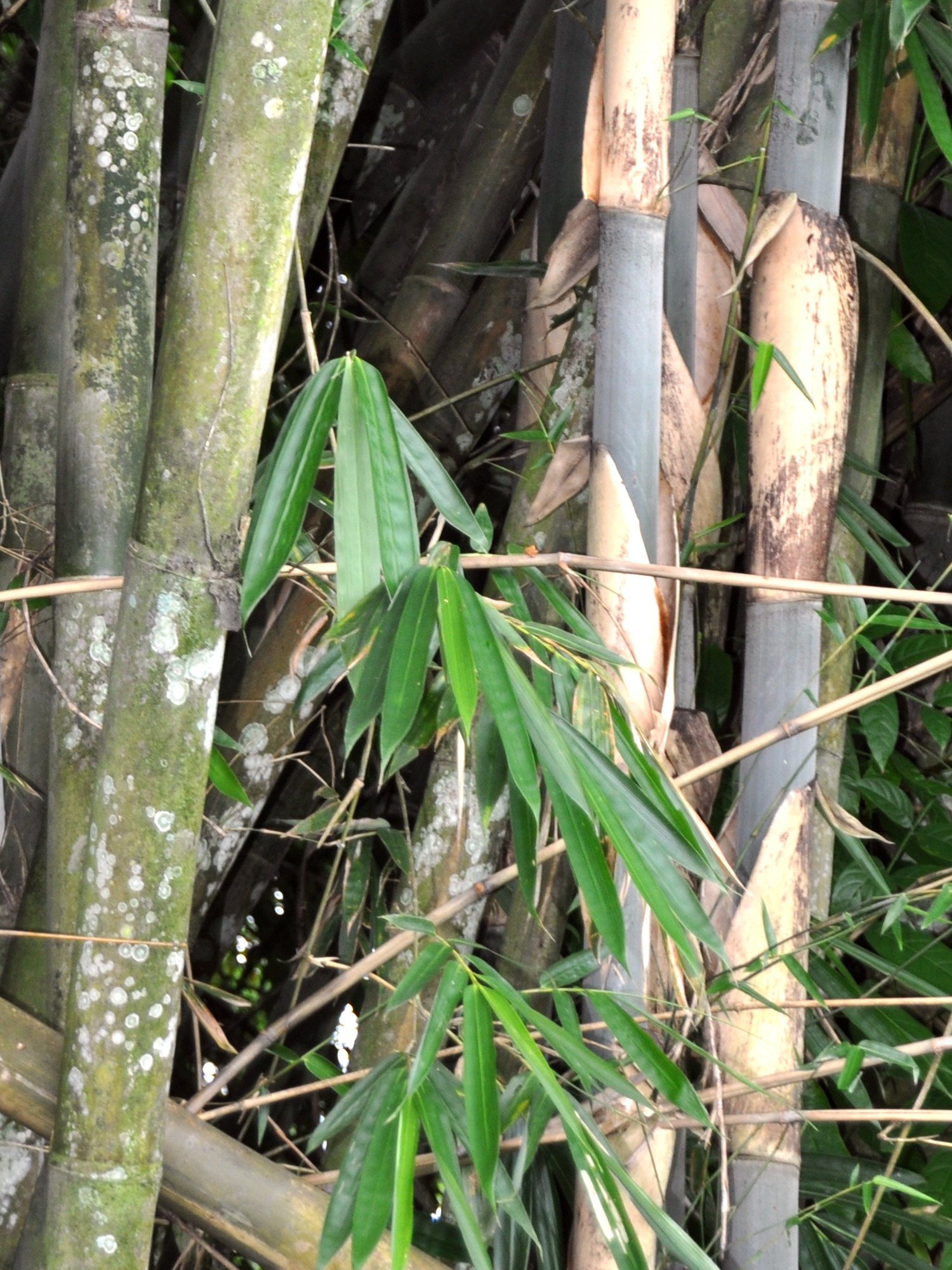 String bamboo (Gigantochloa apus); culms and leaves. From Magetan, East Java, Indonesia.